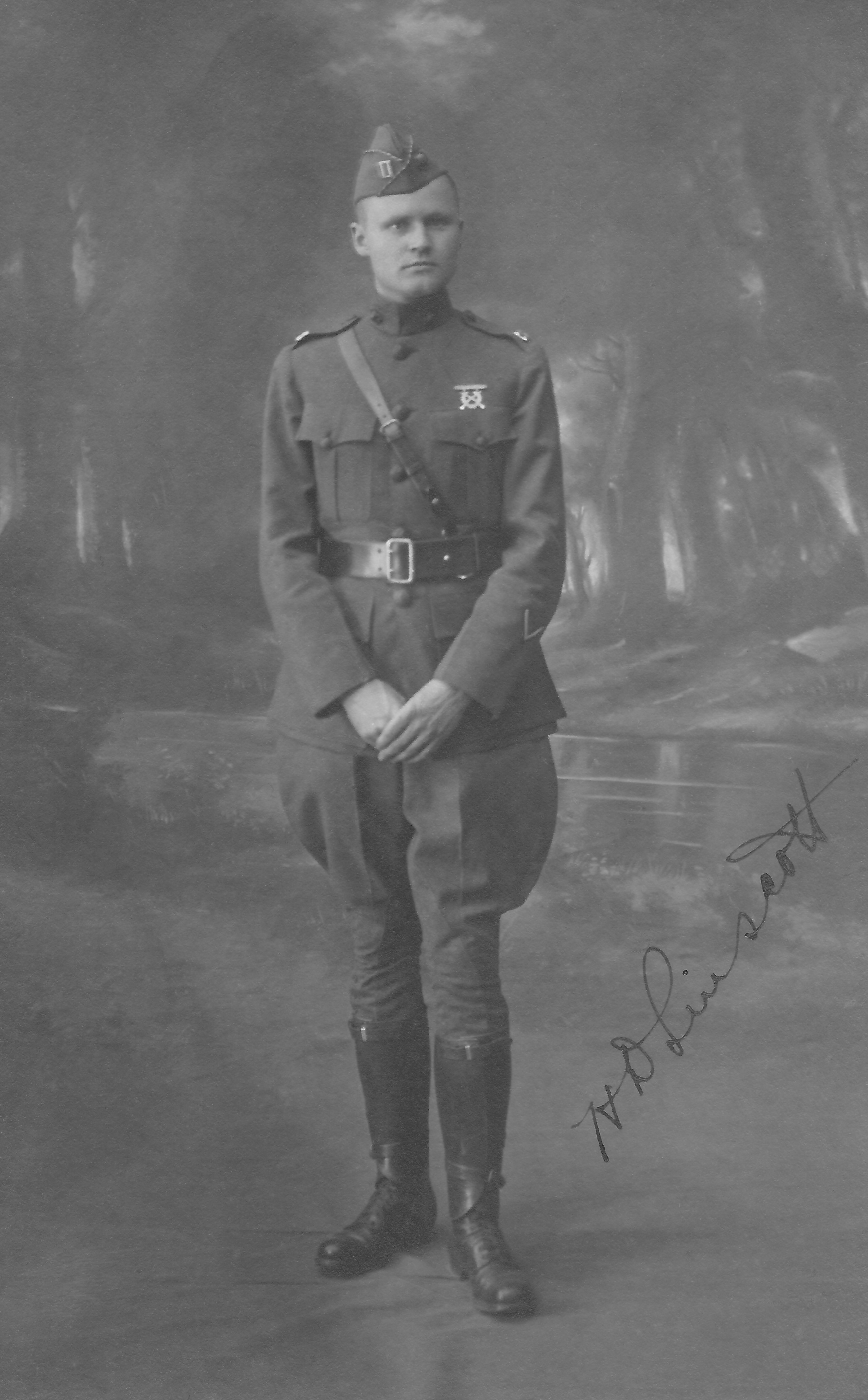 Future Lieutenant general Henry D. Linscott, here shown as Captain in France.